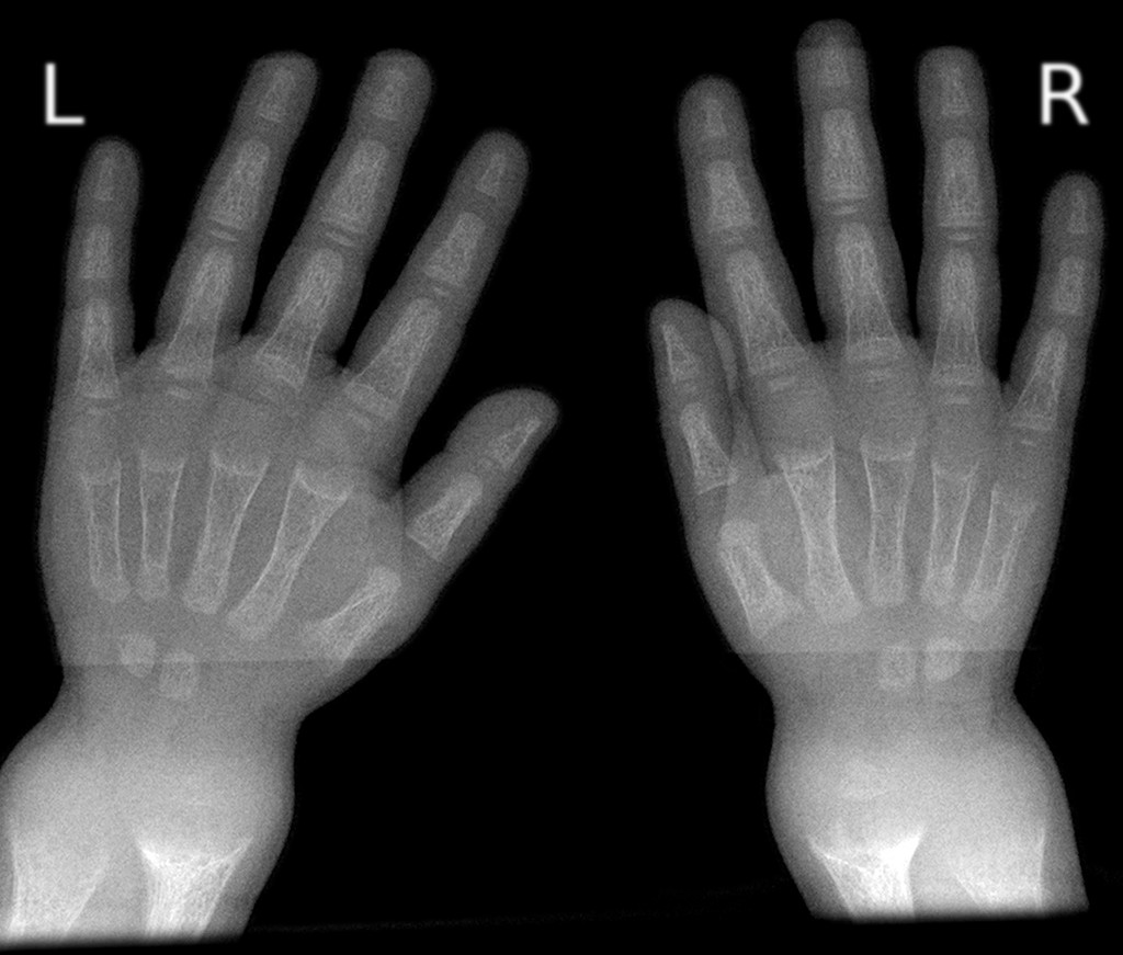 Wrist X-Ray showing changes in rickets (pediatric osteomalacia), mainly cupping is seen here. This is an edited version of the source image made for use in the "Anatomist" iOS and Android app and shared here under the terms of the source image's Share Alike Creative Commons license.